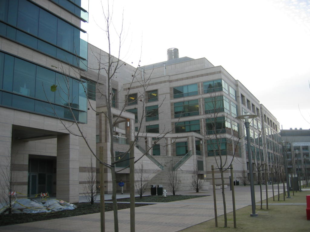 Taken by User:Jiang in San Francisco, CA, USA on January 11, 2006.